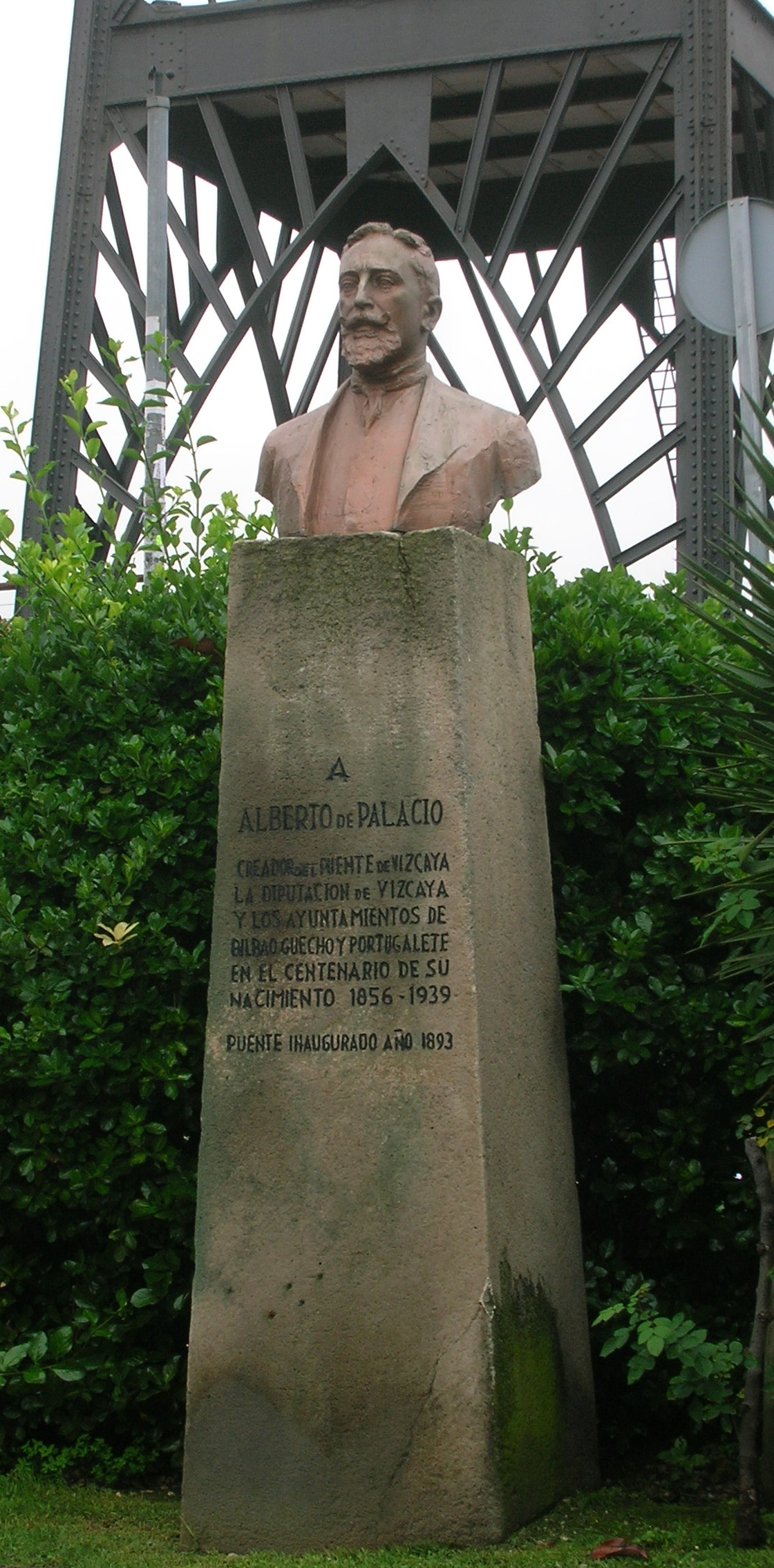 Monument to architect Alberto de Palacio, at Bridge Plaza in Areeta - Las Arenas, Getxo. On the background, his work, the Transportet Bridge of Biscay.